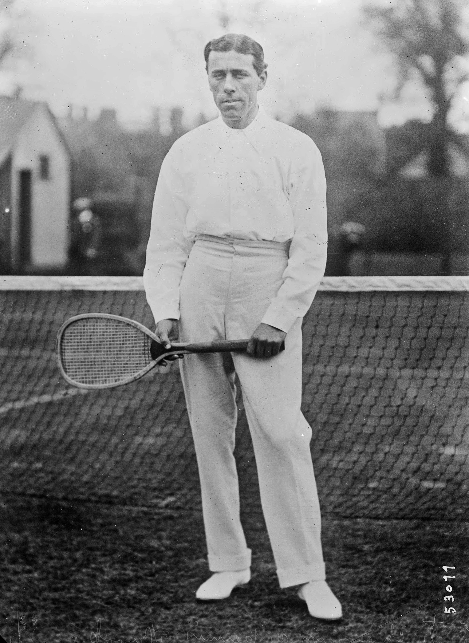 Australian tennis player Norman Brookes